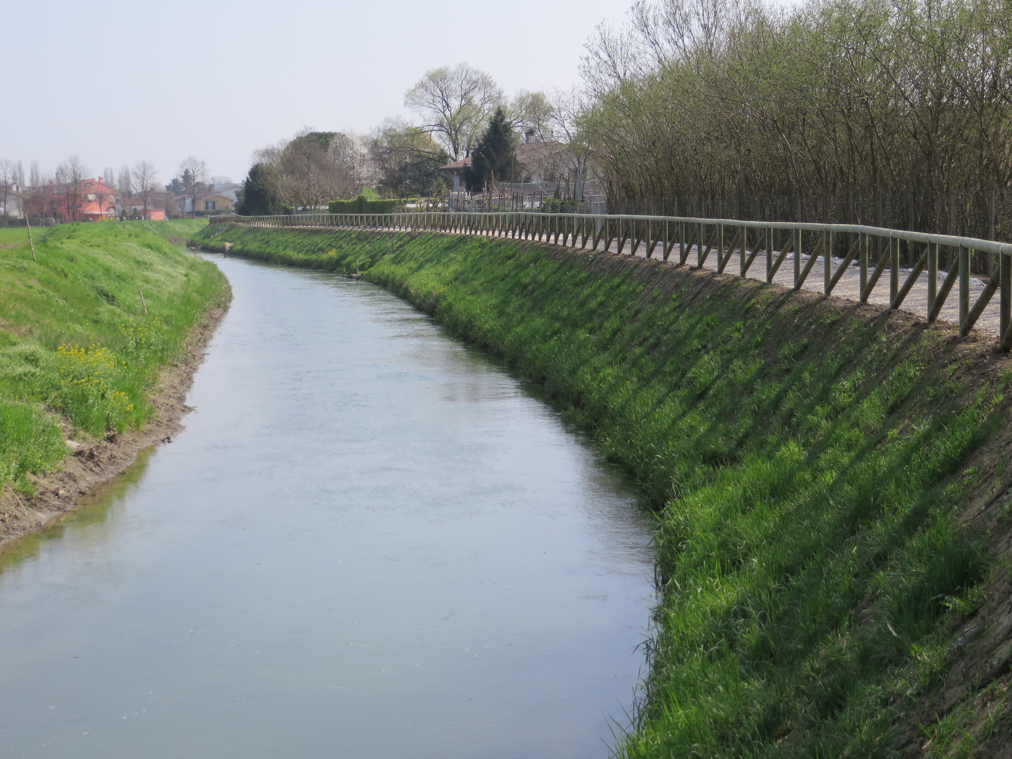 Lungodese a Scorzè